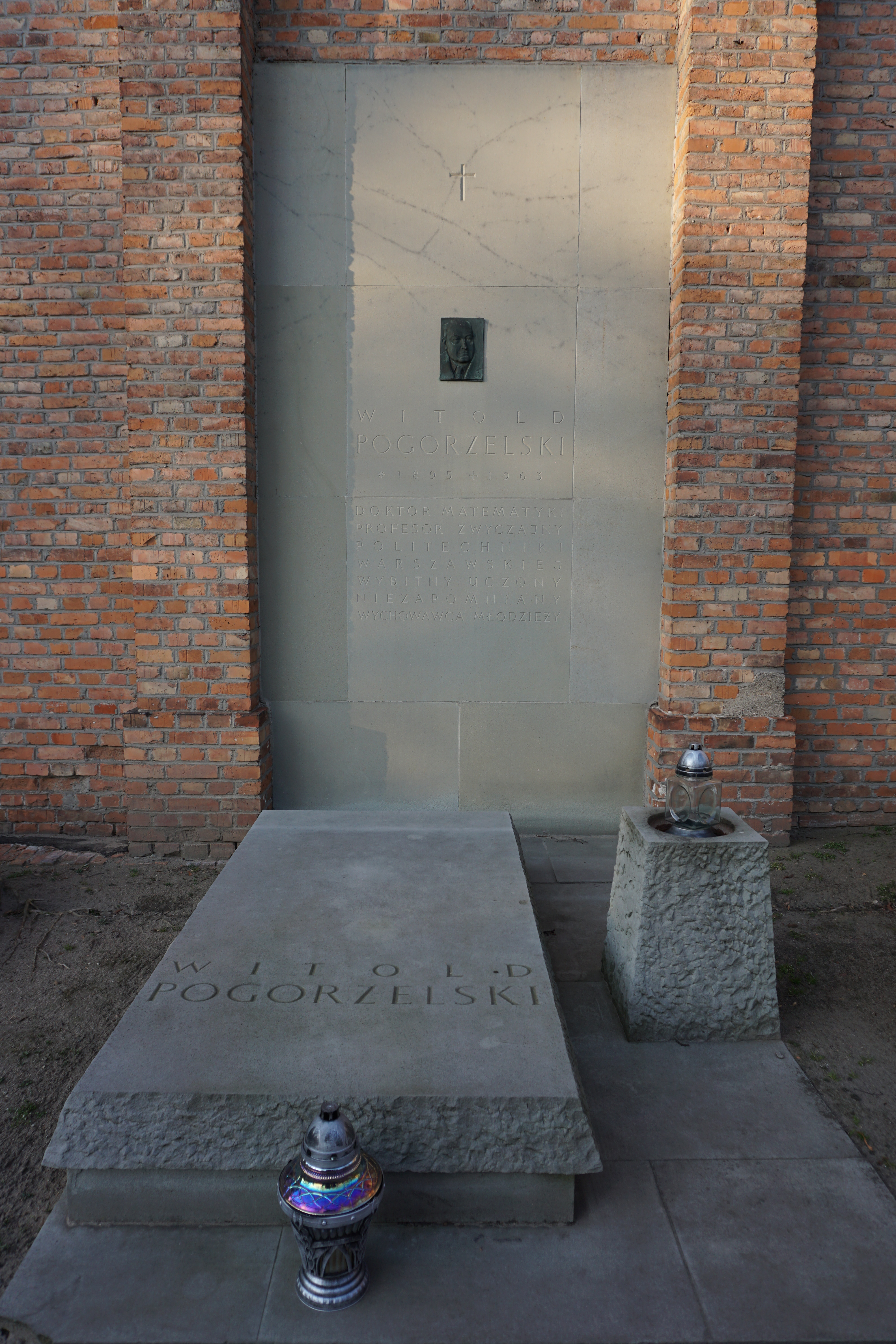 The grave of Witold Pogorzelski at the Powązki Cemetery (Avenue of Deserved, grave 122)